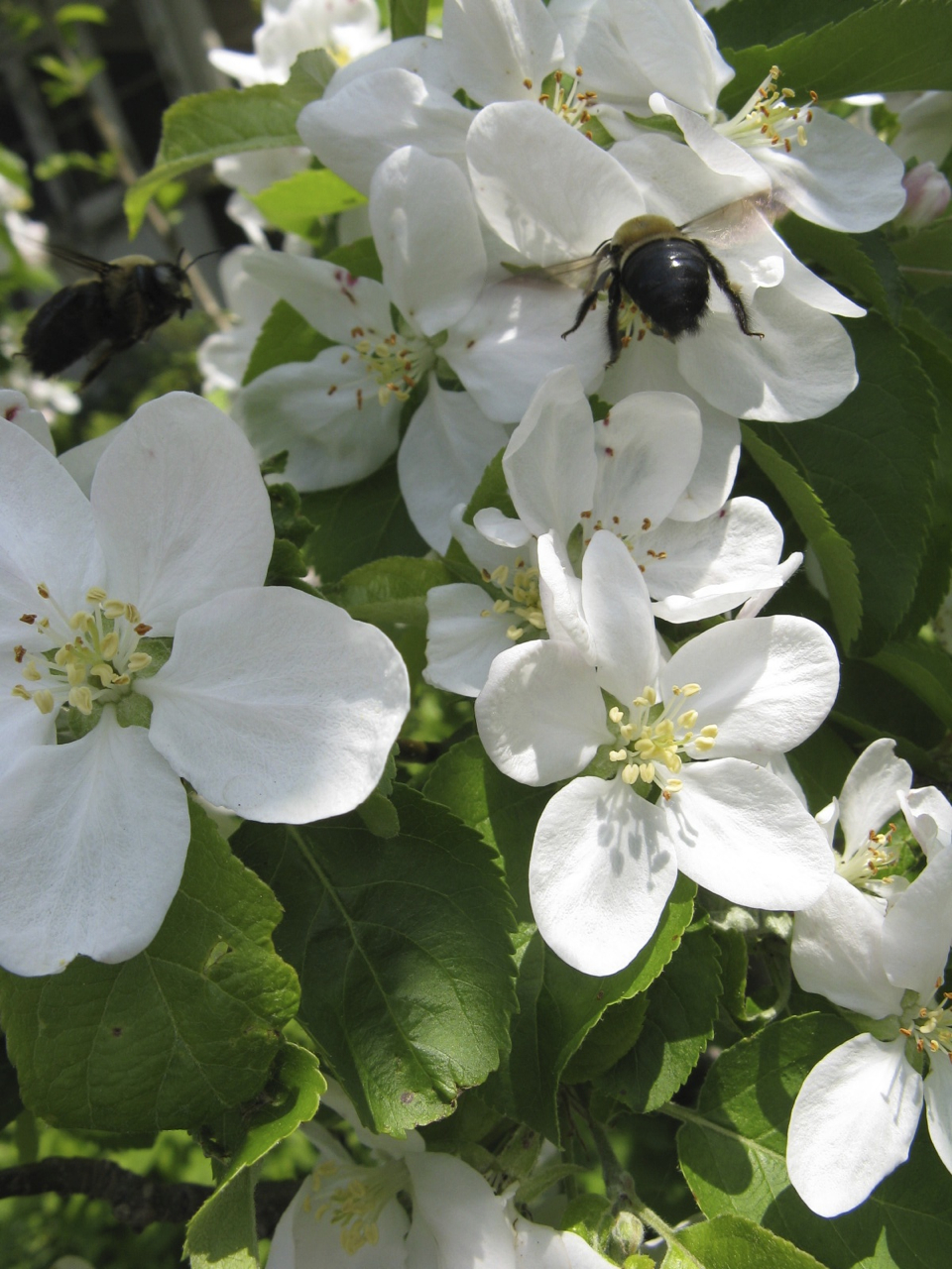 Malus 'Pristine', blossom